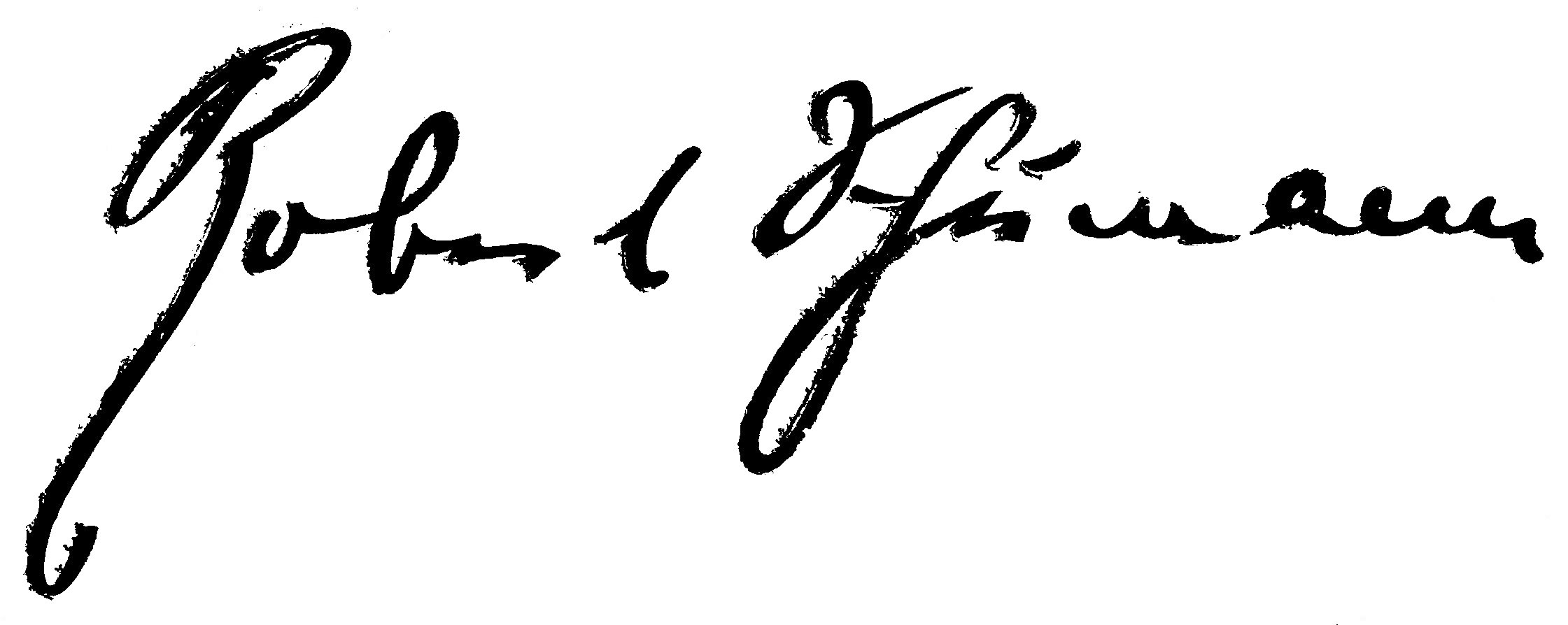 Signature of Robert Schumann